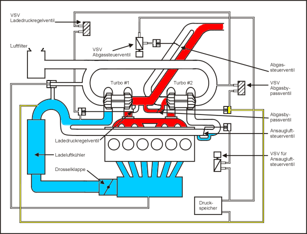 Toyota Supra MKIV Sequential Turbo System 004